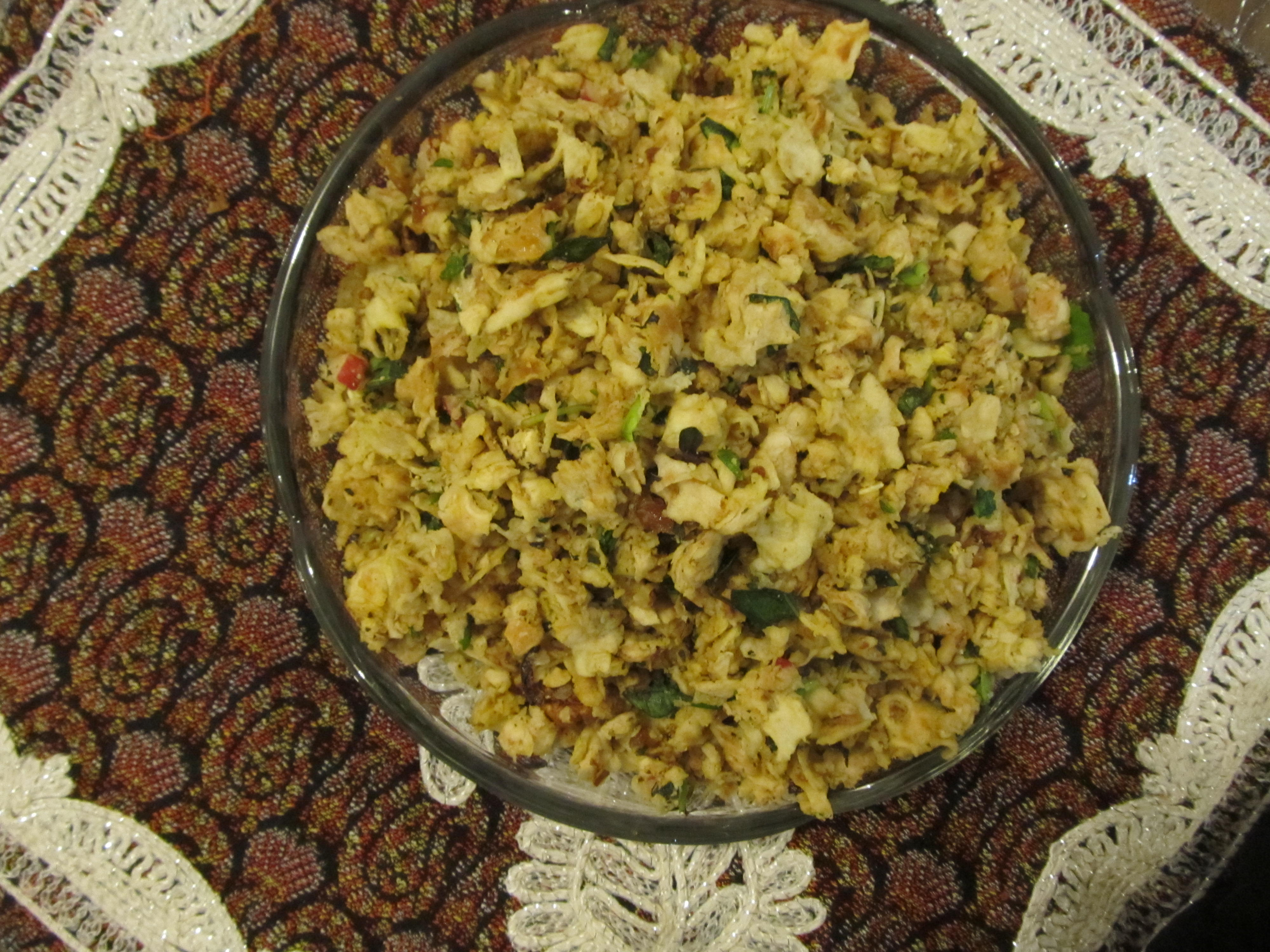 One of the traditional foods of Qazvin